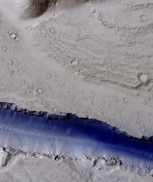 Troughs with possible seasonal frost as seen by hirise under HiWish program. Location is 15.8N and 161.4 E.